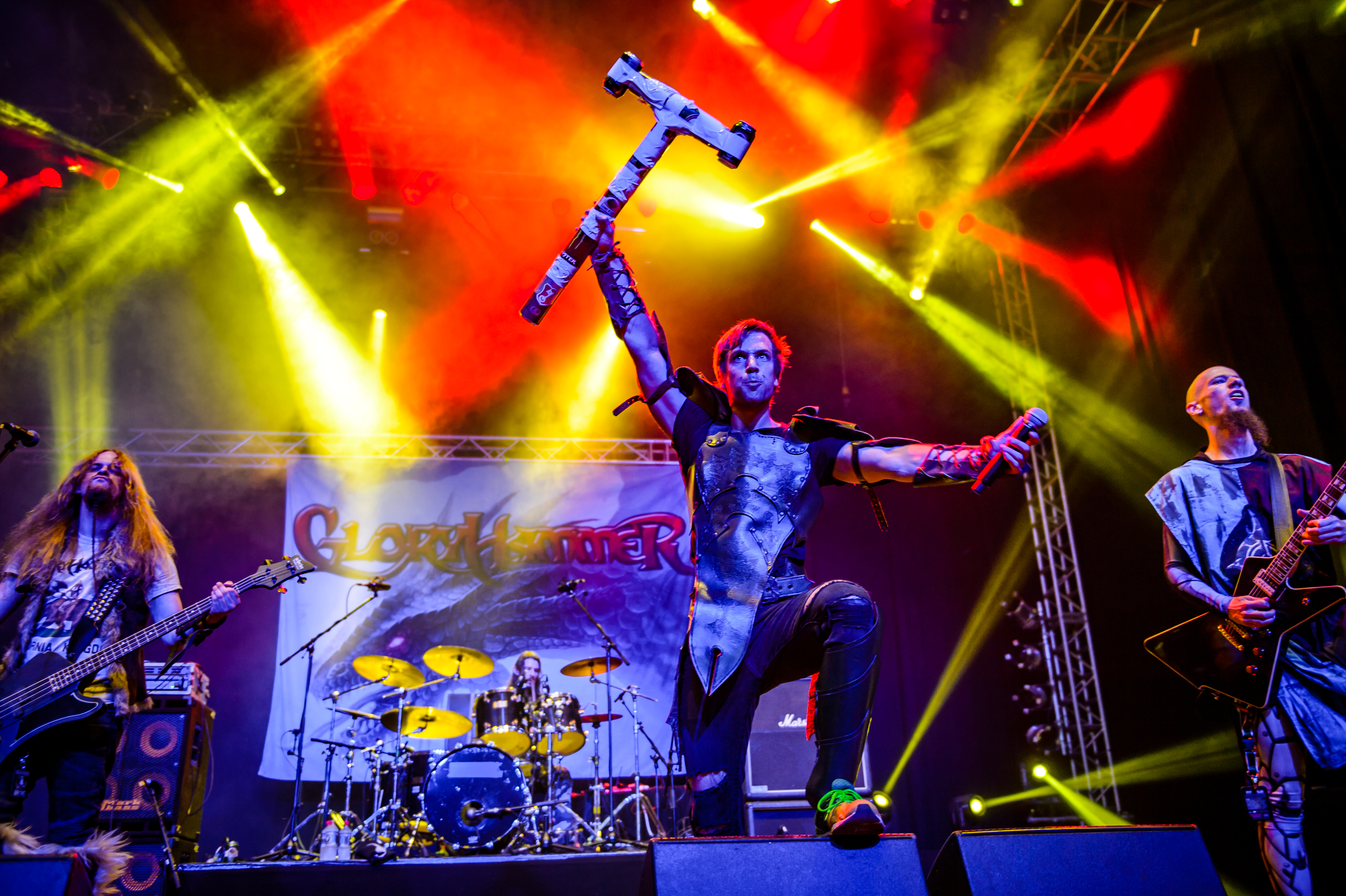 Gloryhammer; Wacken Open Air 2016